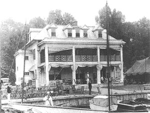 Clubhouse 2